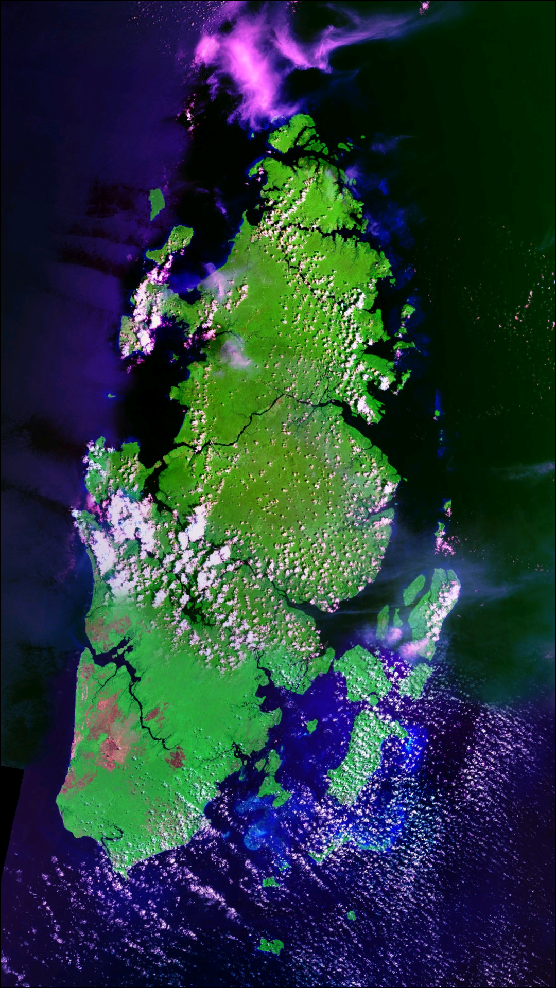 Aru Islands, Indonesia Geocover 2000